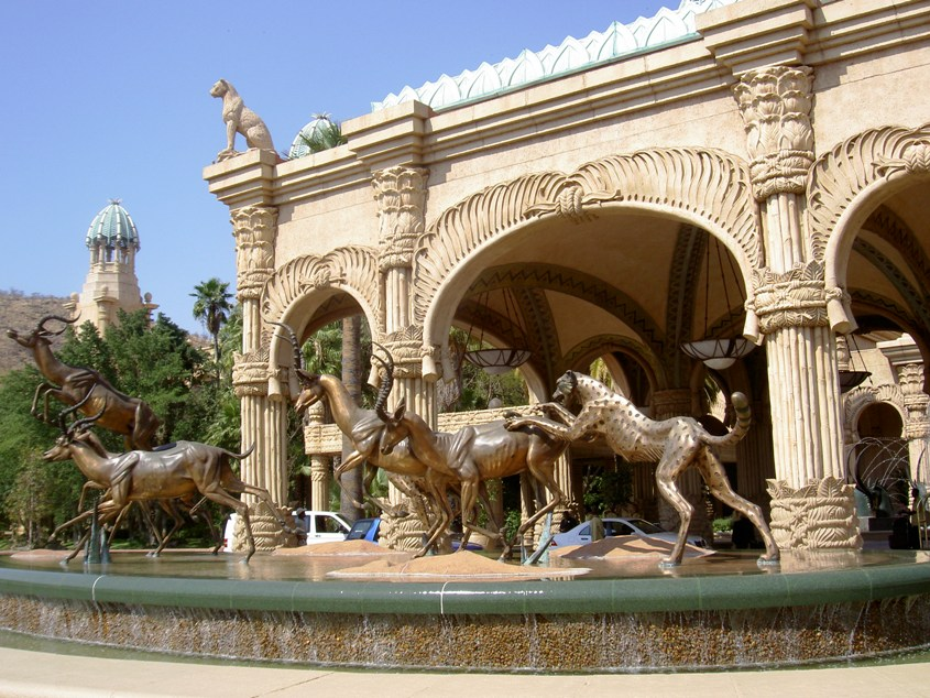 Photo of the Palace - Sun City